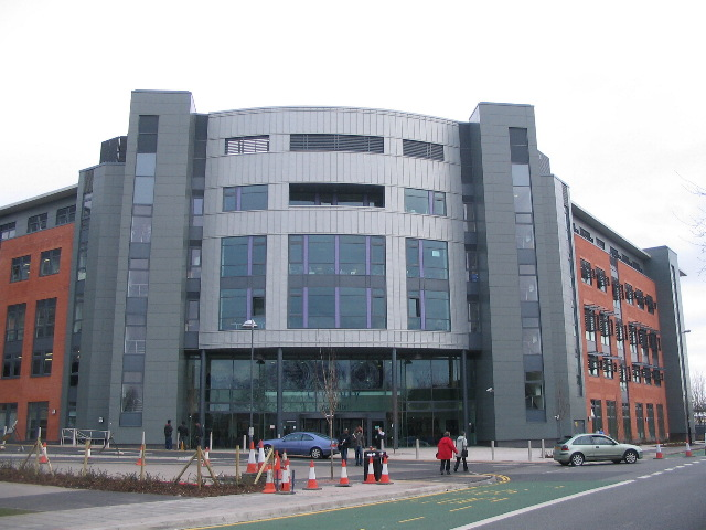 City College, Coventry City College, created from a merger of Coventry Technical College and Tile Hill College, now stands in brand new buildings on Swanswell Street, near the city centre. The buildings replace some tower blocks built in the 1960s which themselves replaced Victorian red brick terraces.